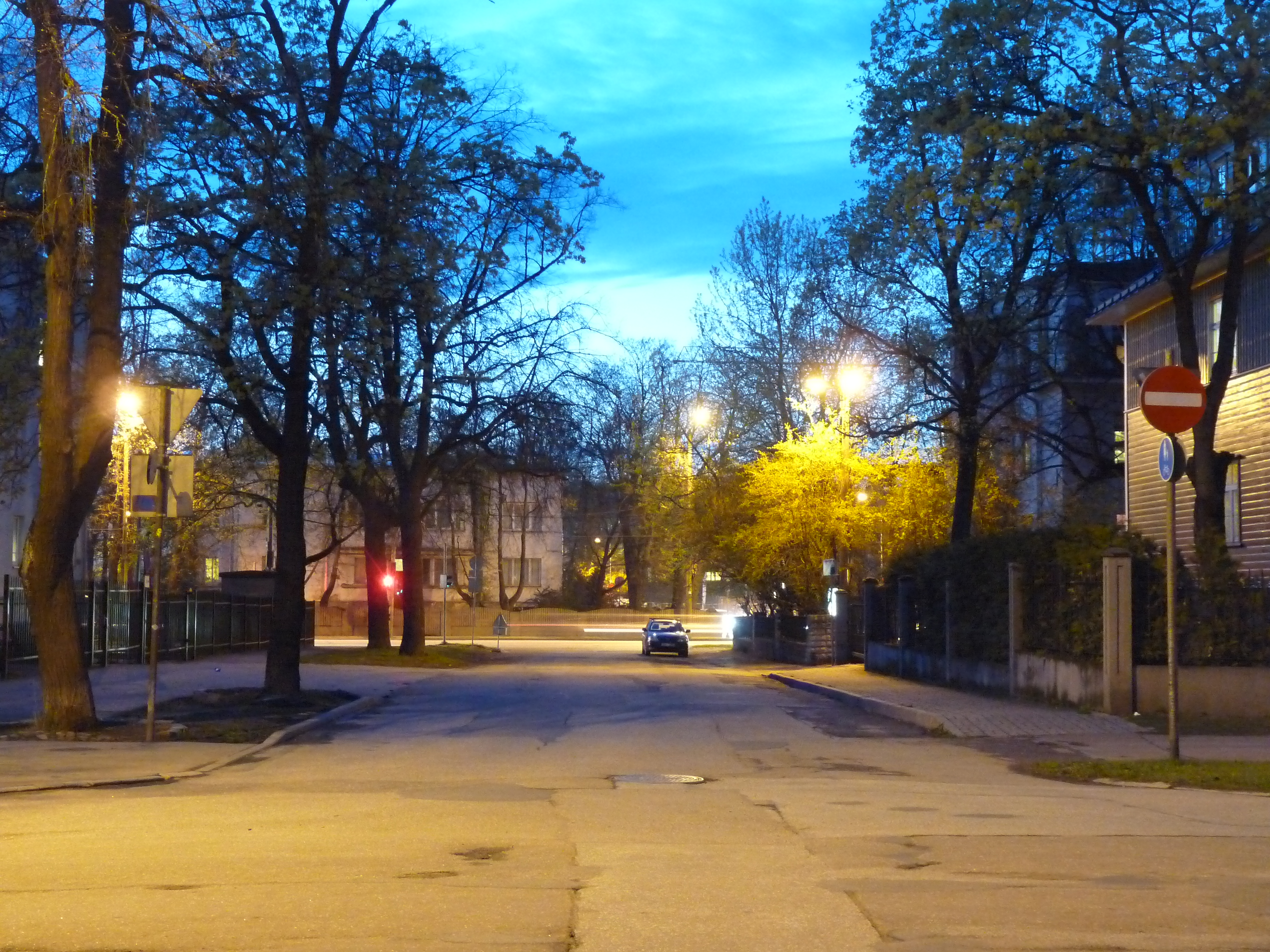 Tormi street in Tallinn, Estonia